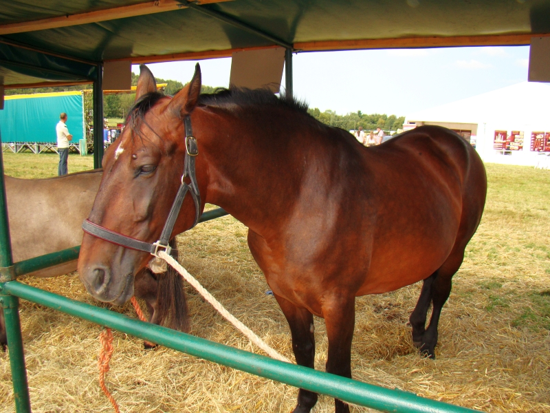 Silesian horse